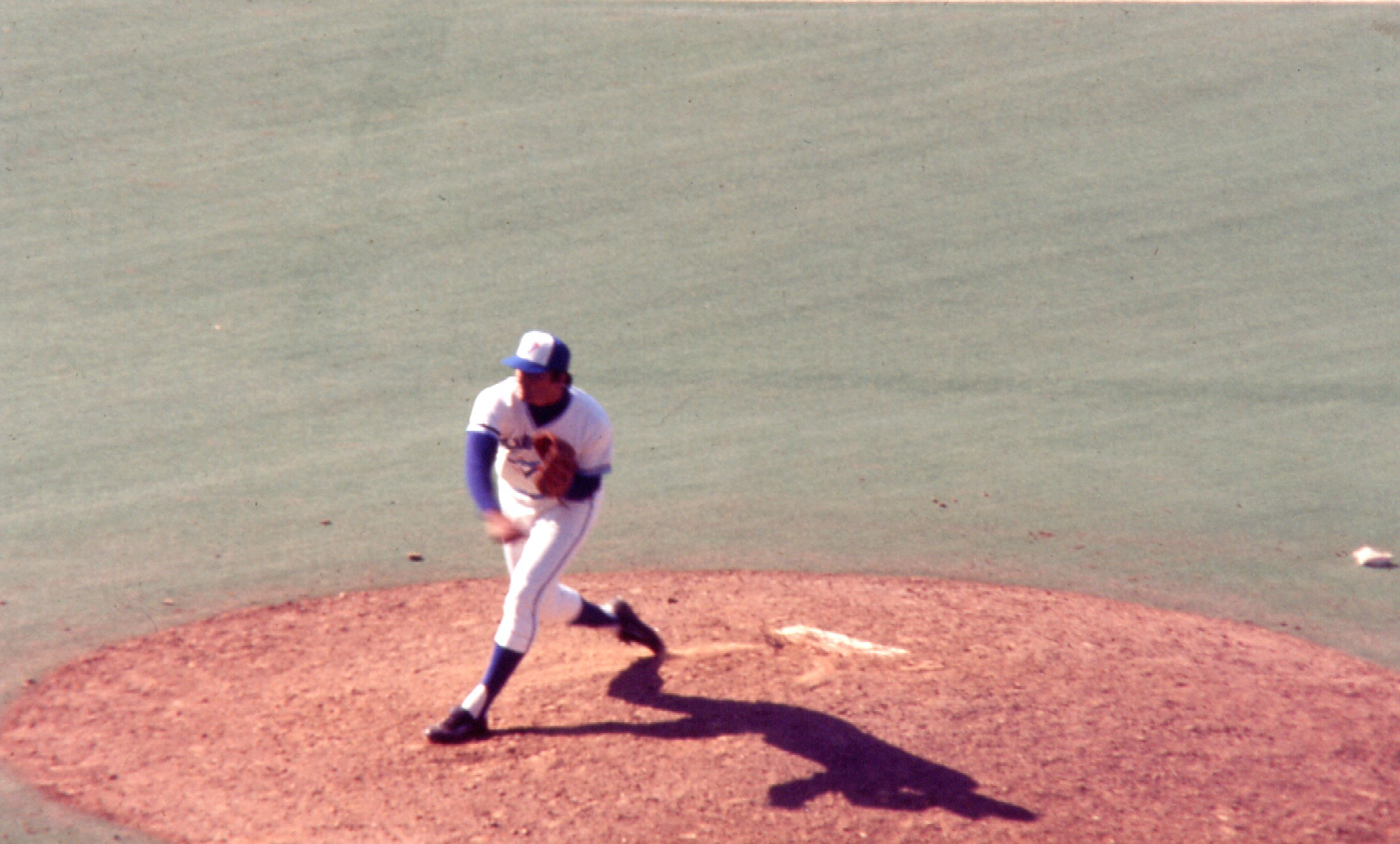 Dave Lemanczyk pitches in the second league game the Blue Jays ever played.